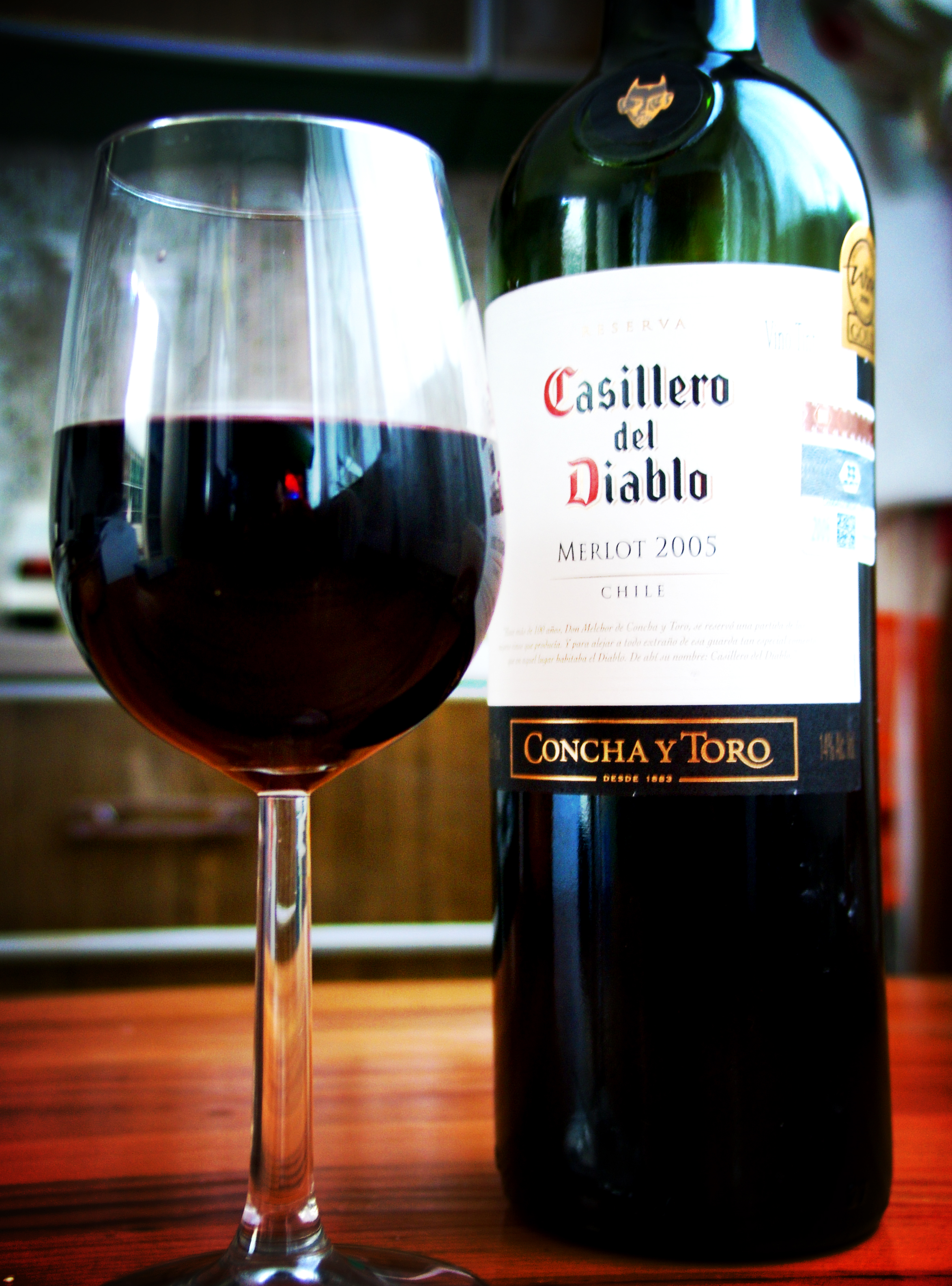 Merlot from Concha Y Toro in Chile